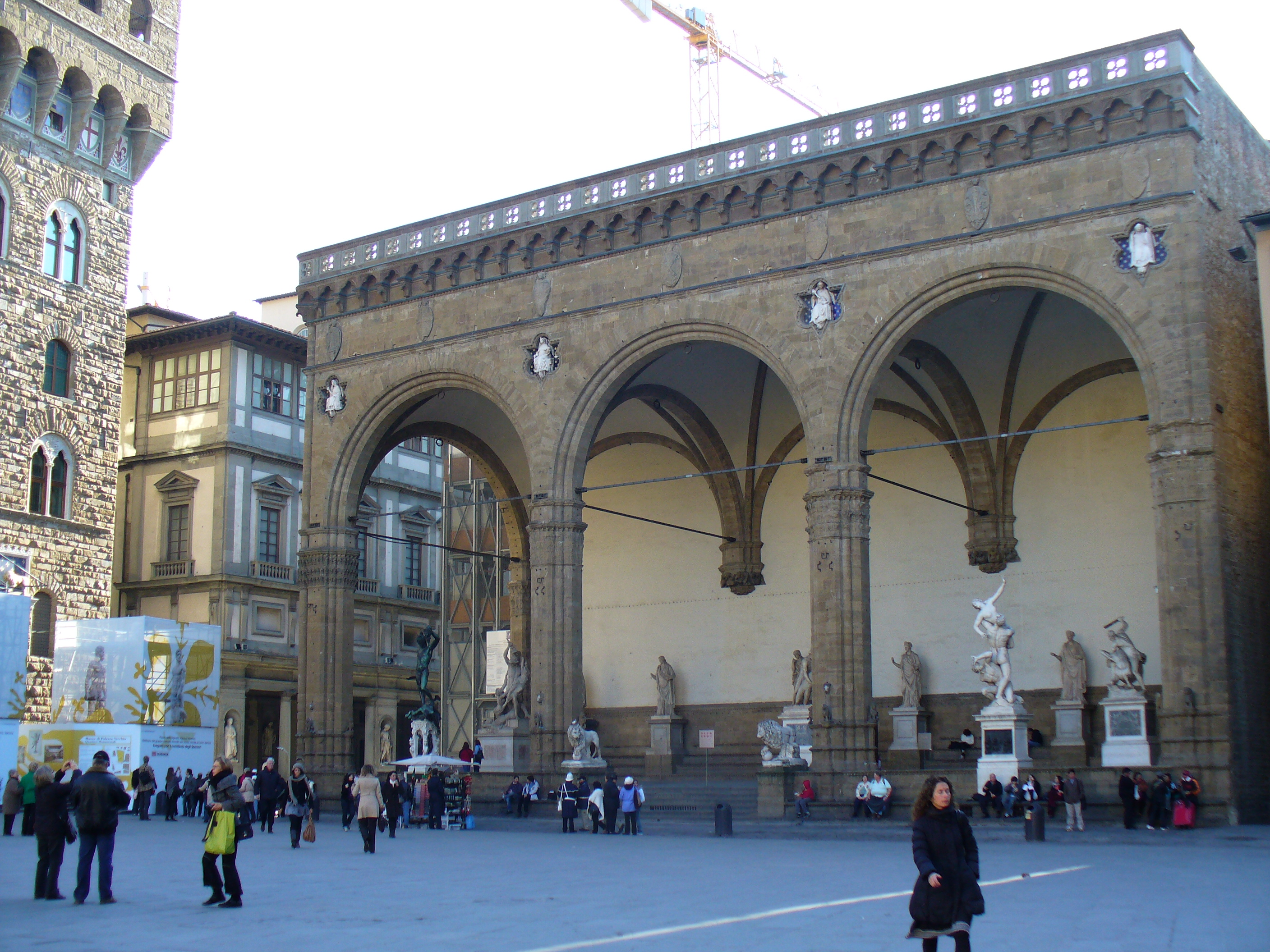 Loggia dei Lanzi Florence